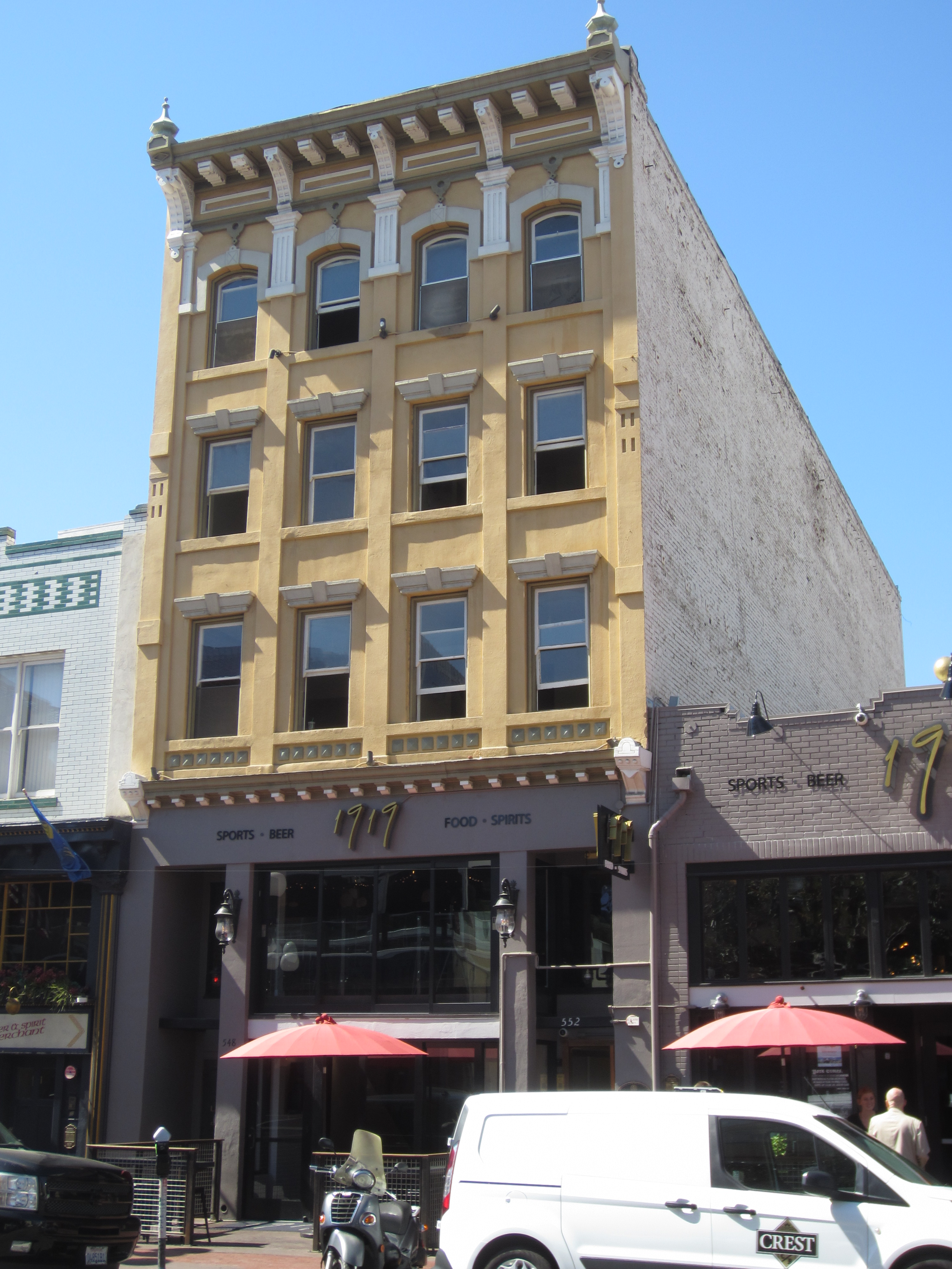 San Diego, 2016